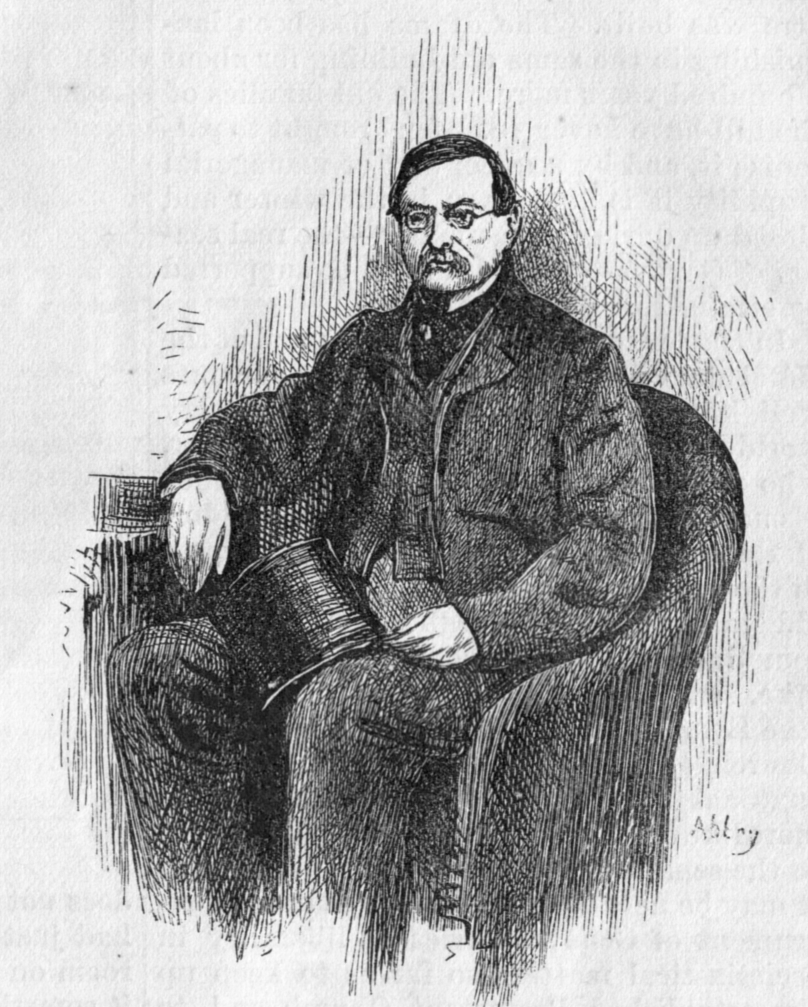 Illustration of James Fazy.